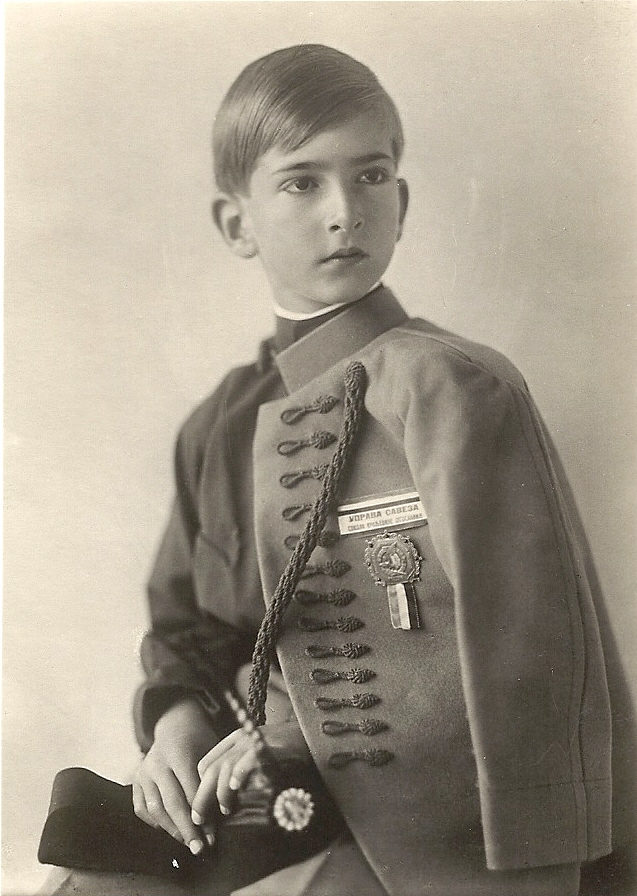 King Peter II of Yugoslavia